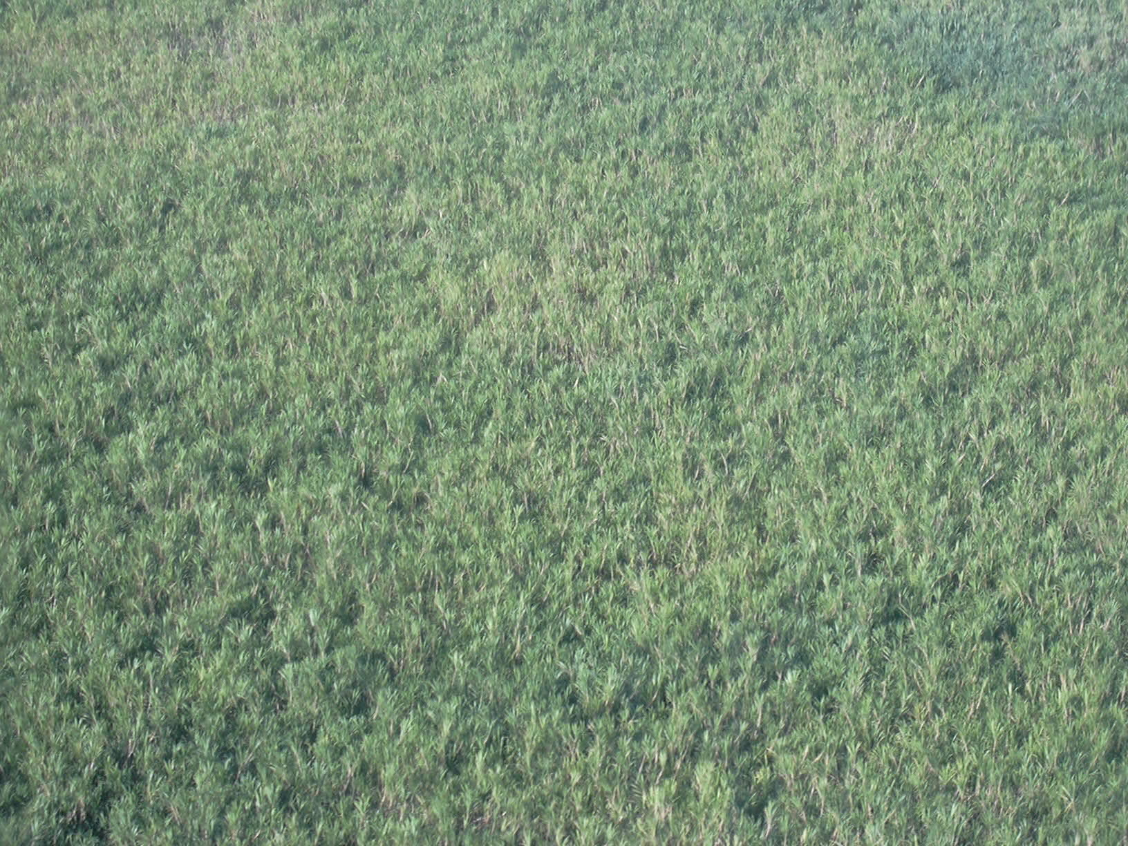 Saccharum officinarum (aerial view). Location: Maui, Kihei